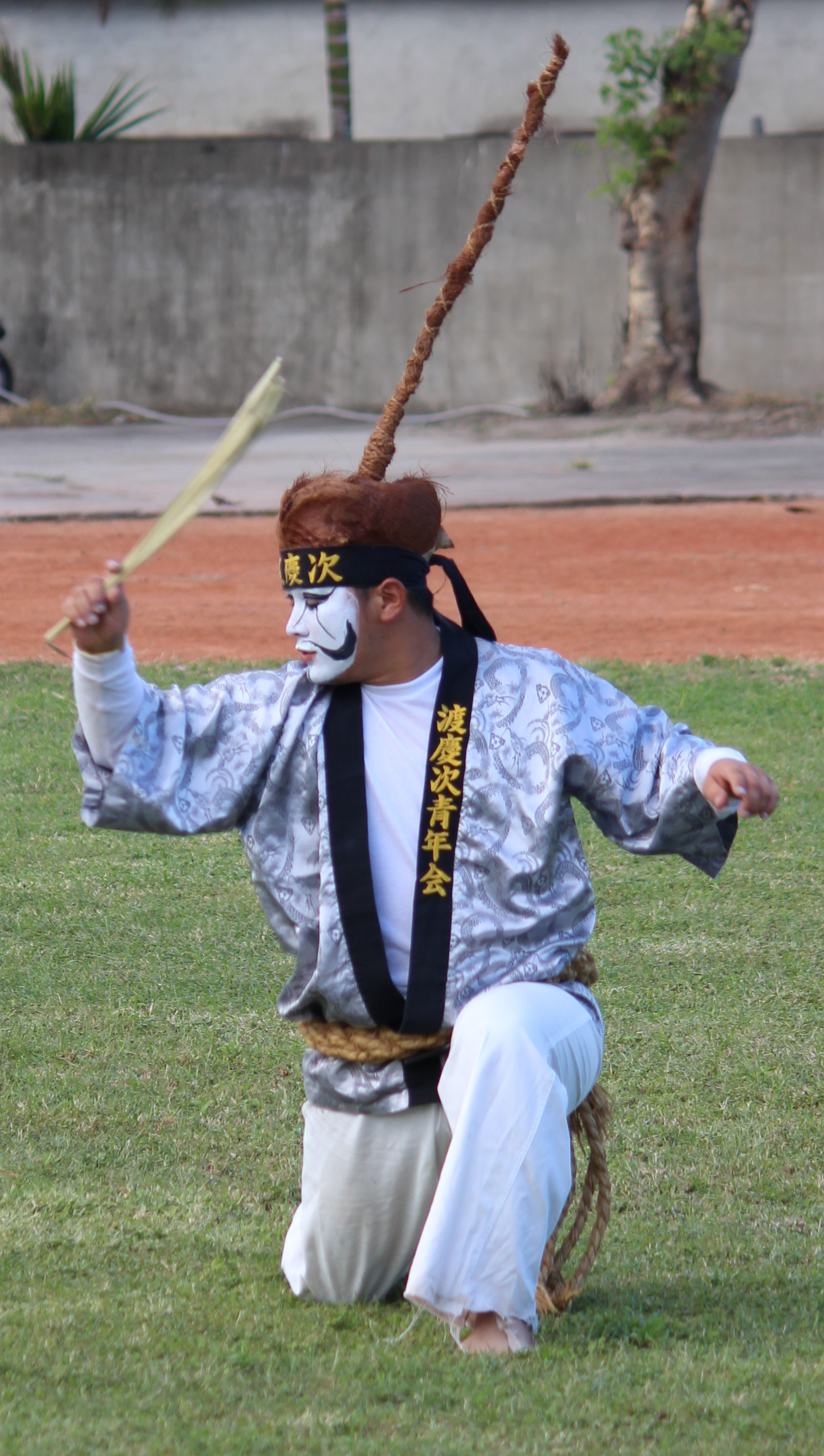 A member of the Tokeshi Youth Association (渡慶次青年會) from Yomitan-son (讀谷村) of Okinawa (沖繩), Japan performing a traditional Eisa dance at the 2016 Amis Music Festival (阿米斯音樂節) in Dulan Village (都蘭), Taitung County, Taiwan. [1] This photo has been taken in the country: Taiwan